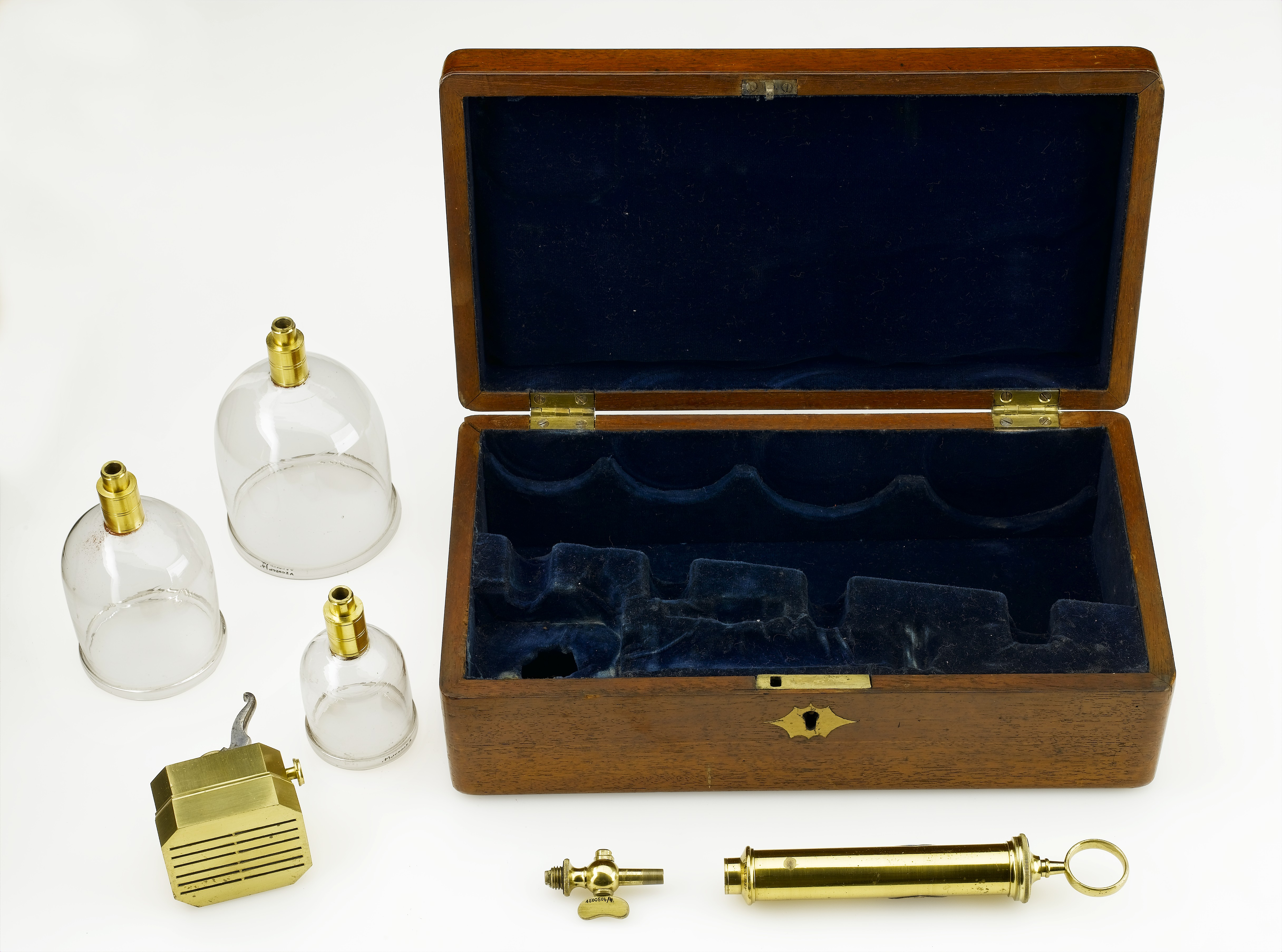 Cupping set, London, England, 1831-1870 A number of instruments could be used for bloodletting, some of which are shown here. The scarificator, which was first developed in the 1600s, has twelve blades that cut into the skin when a trigger is released. The cupping glasses, of which three out of four are shown here, were used to draw blood from the skin. This was done after use of the scarificator and was known as wet cupping. In dry cupping, the vacuum produced as heated cups cool draws liquid from the tissues. The syringe could be attached to the individual cups to further encourage the flow of blood. A stopcock can also be seen. It fits between the syringe and the cupping glass to regulate blood flow. The set was manufactured by surgical instrument makers Walter and Co. Medical Photographic Library